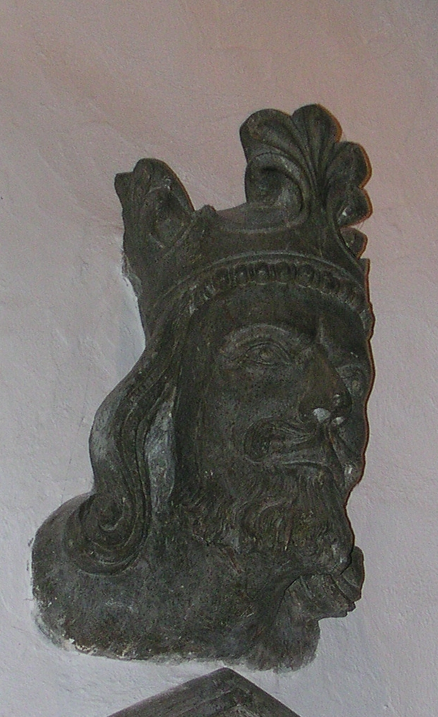 King_Magnus_VI_of_Norway. Stone head in Stavanger_Cathedral. Photographed by Gunleiv Hadland (the uploader)